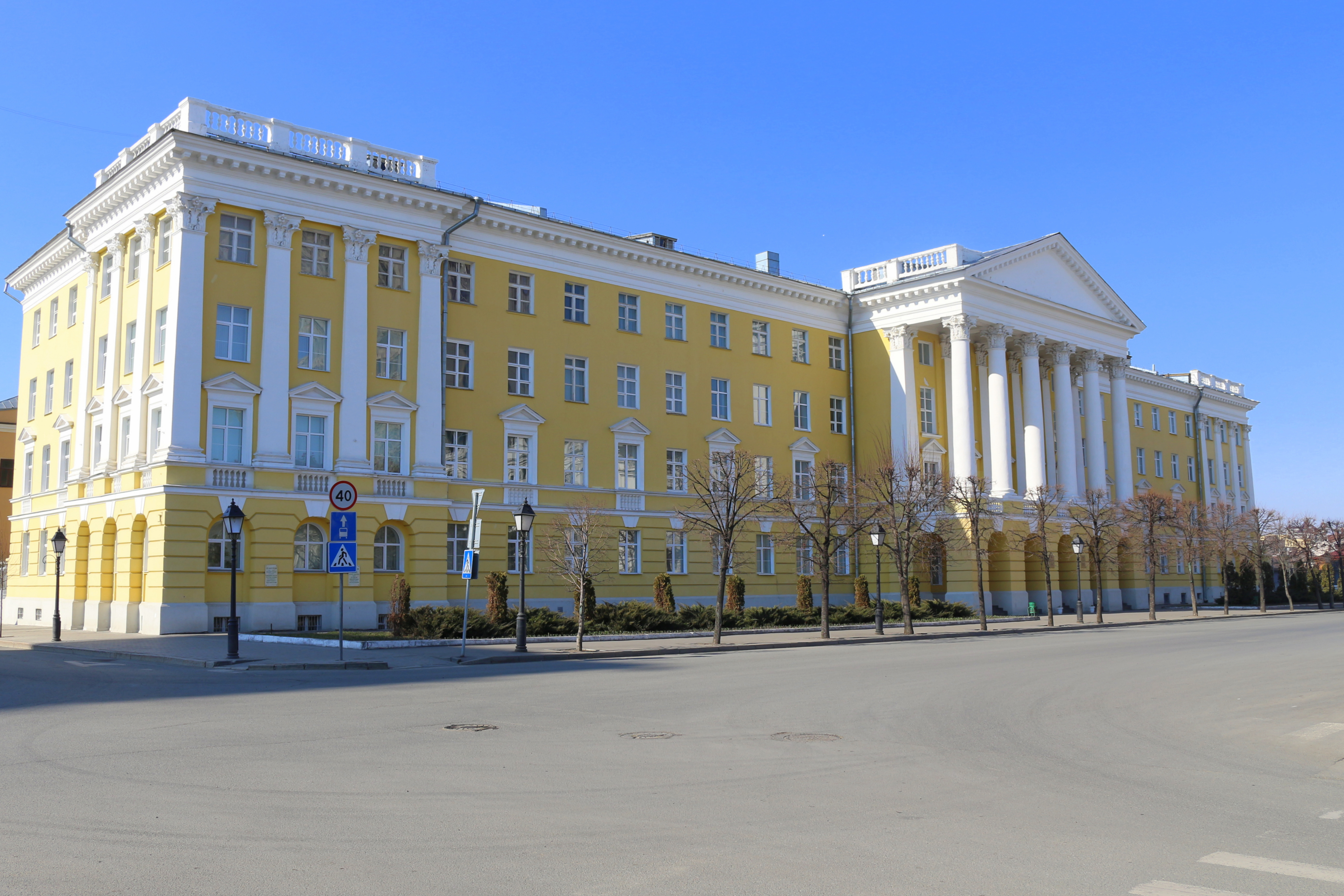 Chemical Faculty